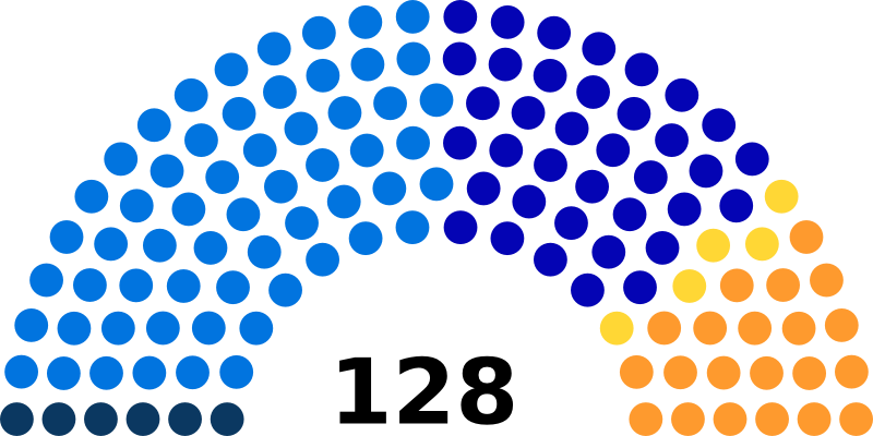 Seats diagramme of Swiss National Council (1863)